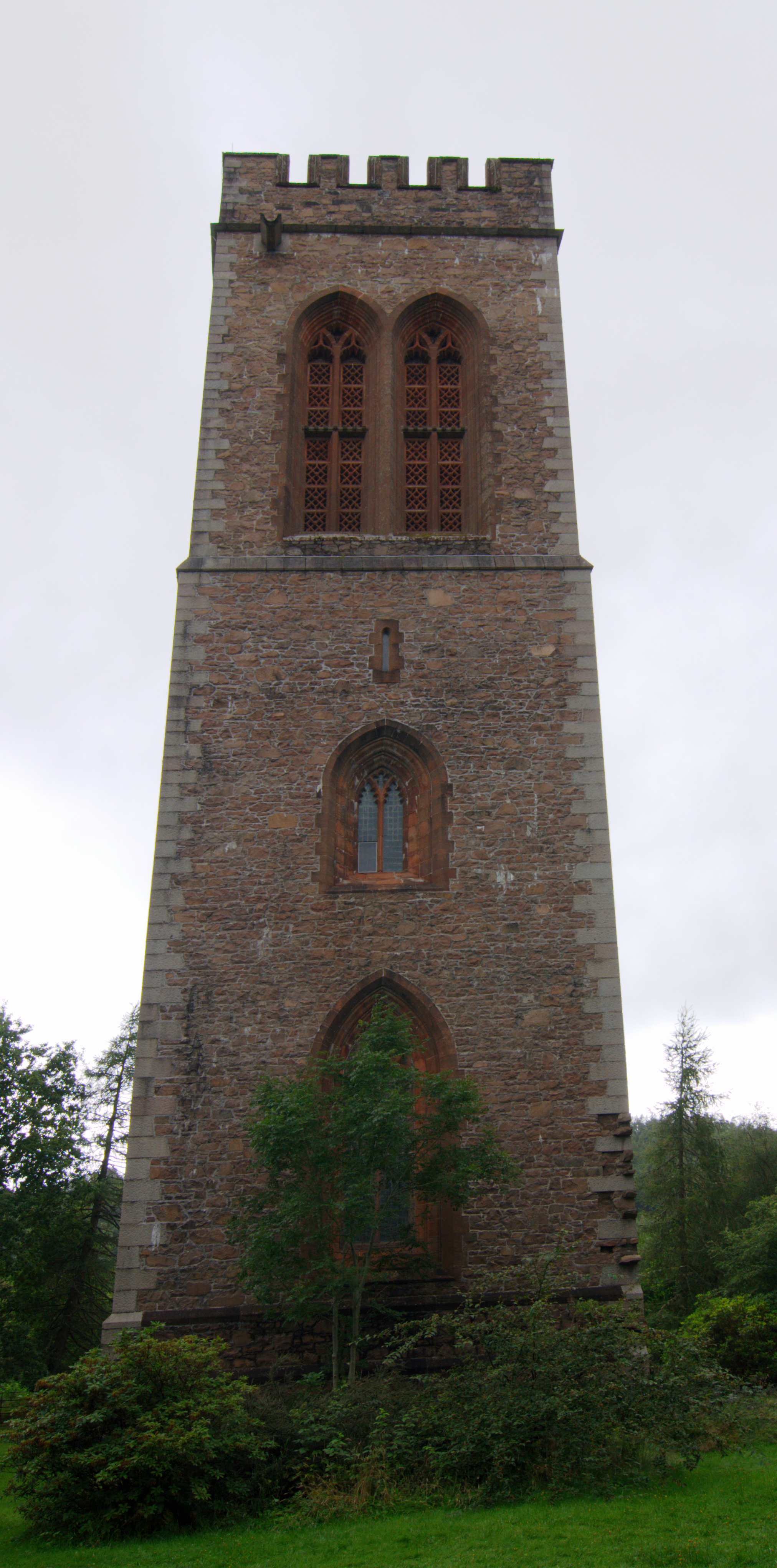 Duke's Tower, Inveraray, Scotland